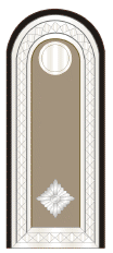 Military rang insignia of the German Democratic Republic until 1990, here: Shoulder board of the Feldwebel (comparable to OR-6 NATO) Weapon colour: black, to – National People´s Army, Land forces: *Engineers, Chemical services, Motor vehicle service, and Military transport service.